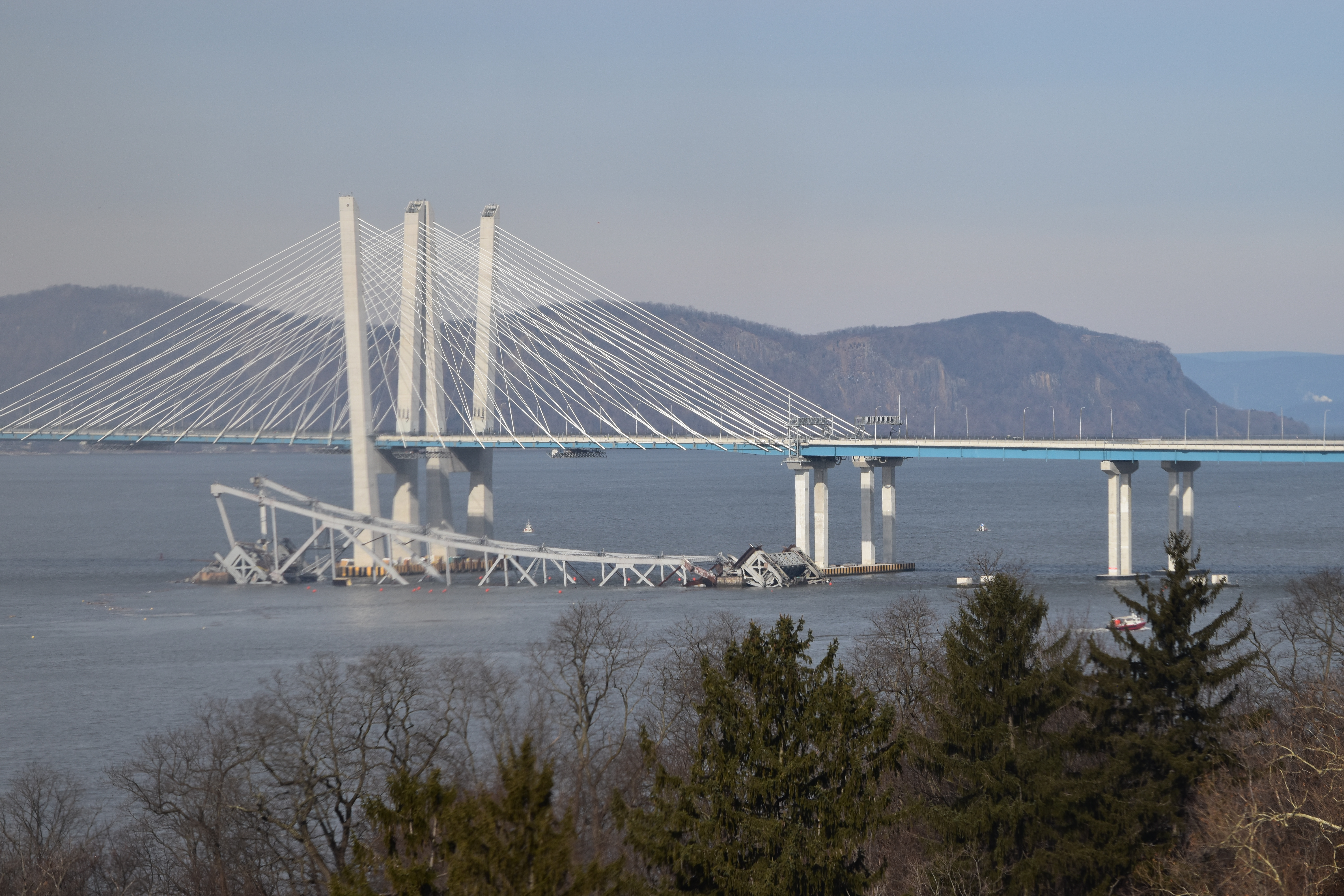 Moment after the explosive demolition of the east span of the Tappan Zee bridge on January 15, 2019